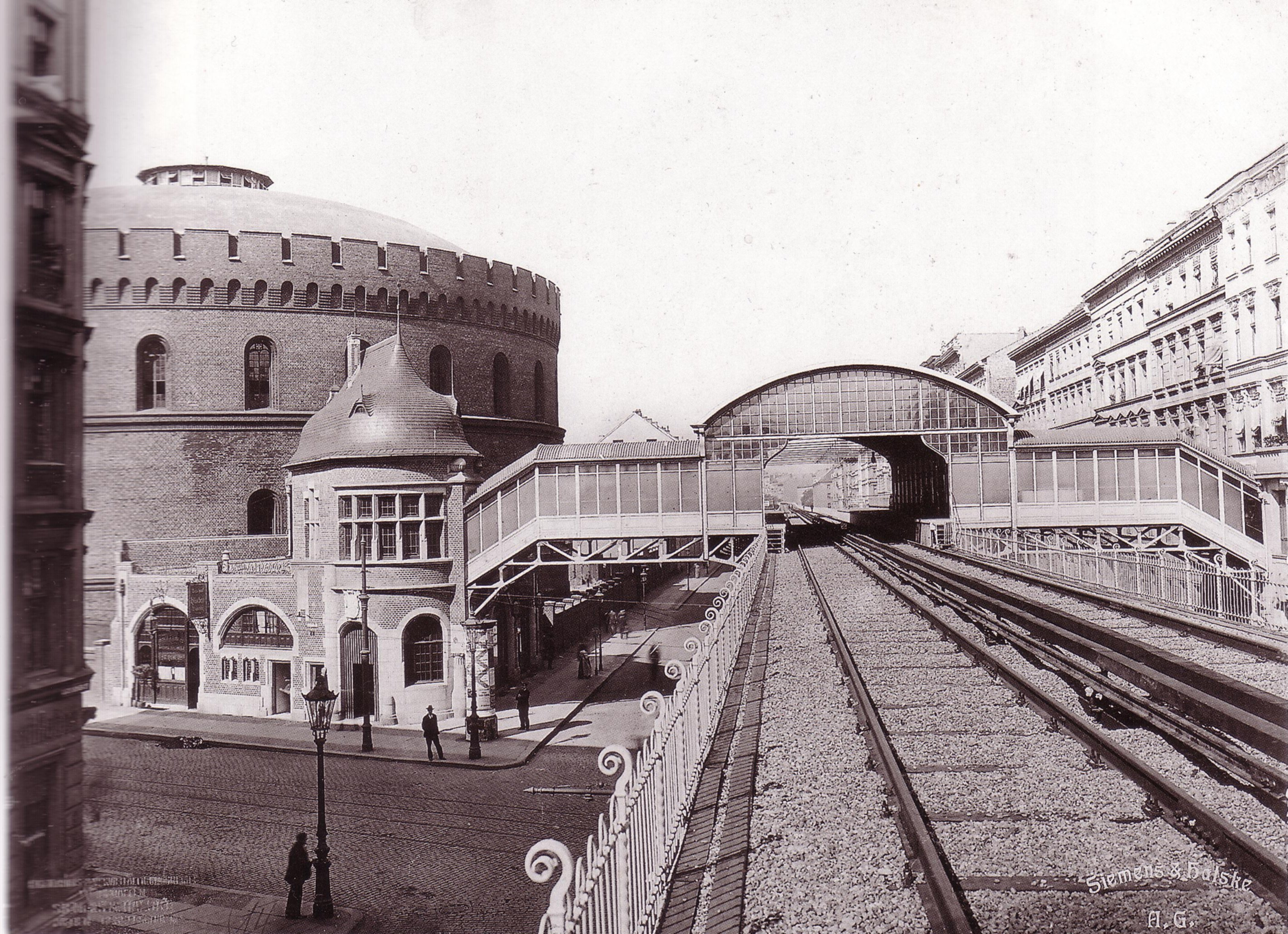 The Berlin U-Bahn station "Prinzenstraße" before the opening